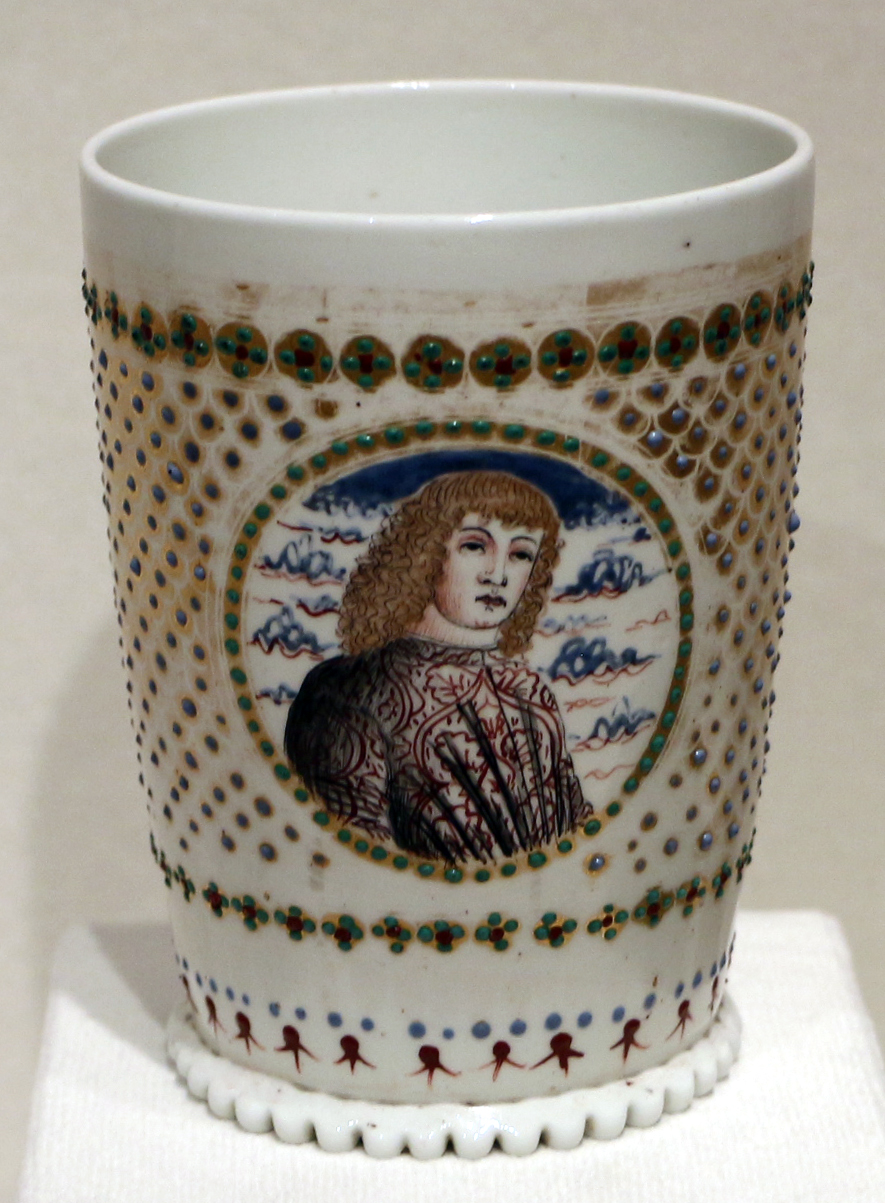 Glassware in the Cleveland Museum of Art